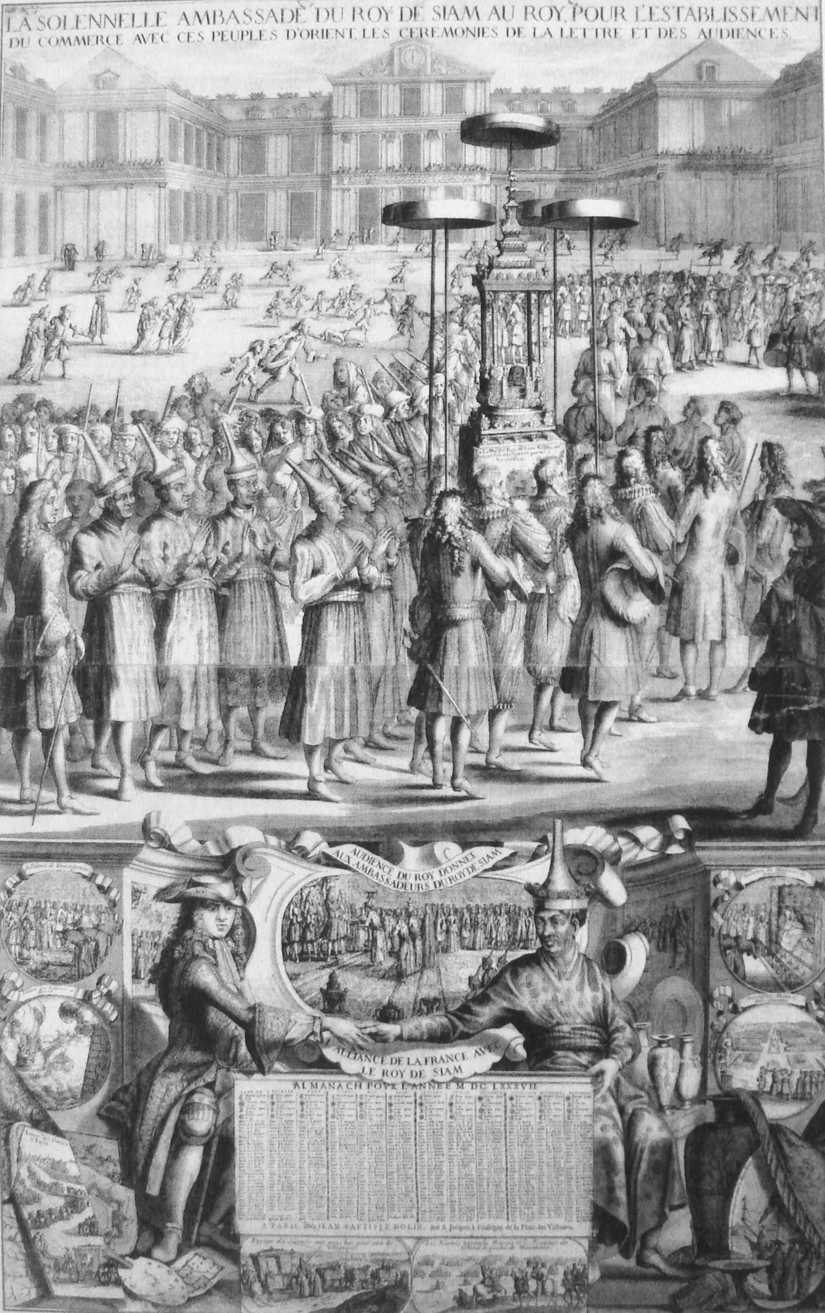 Almanach_1687, visit of the Siamese ambassadors to Versailles